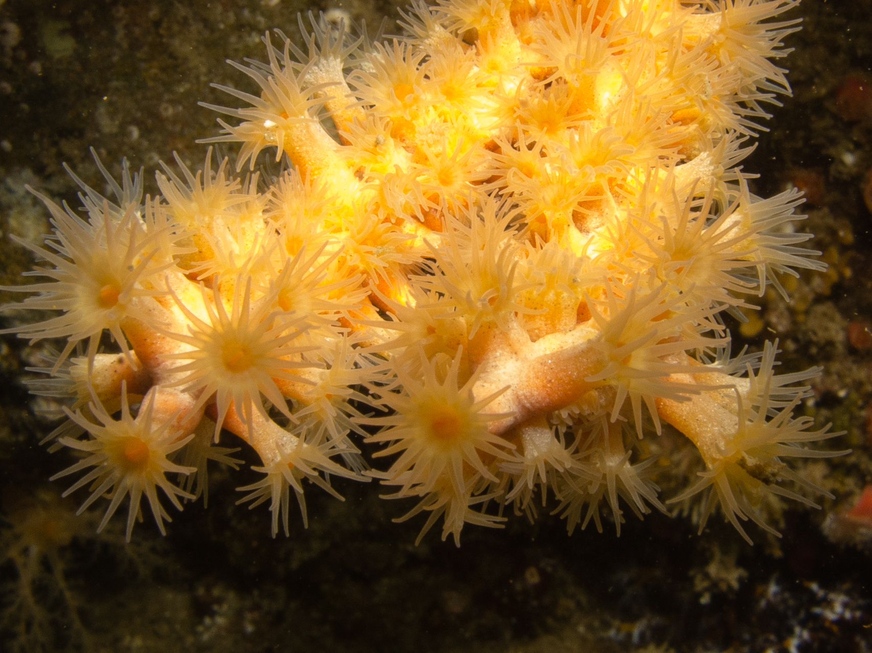 Northern California Rainbow Diver's Channel Island Trip, 2013 - Santa Cruz & San Miguel Islands